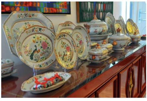 Double Peacock Service